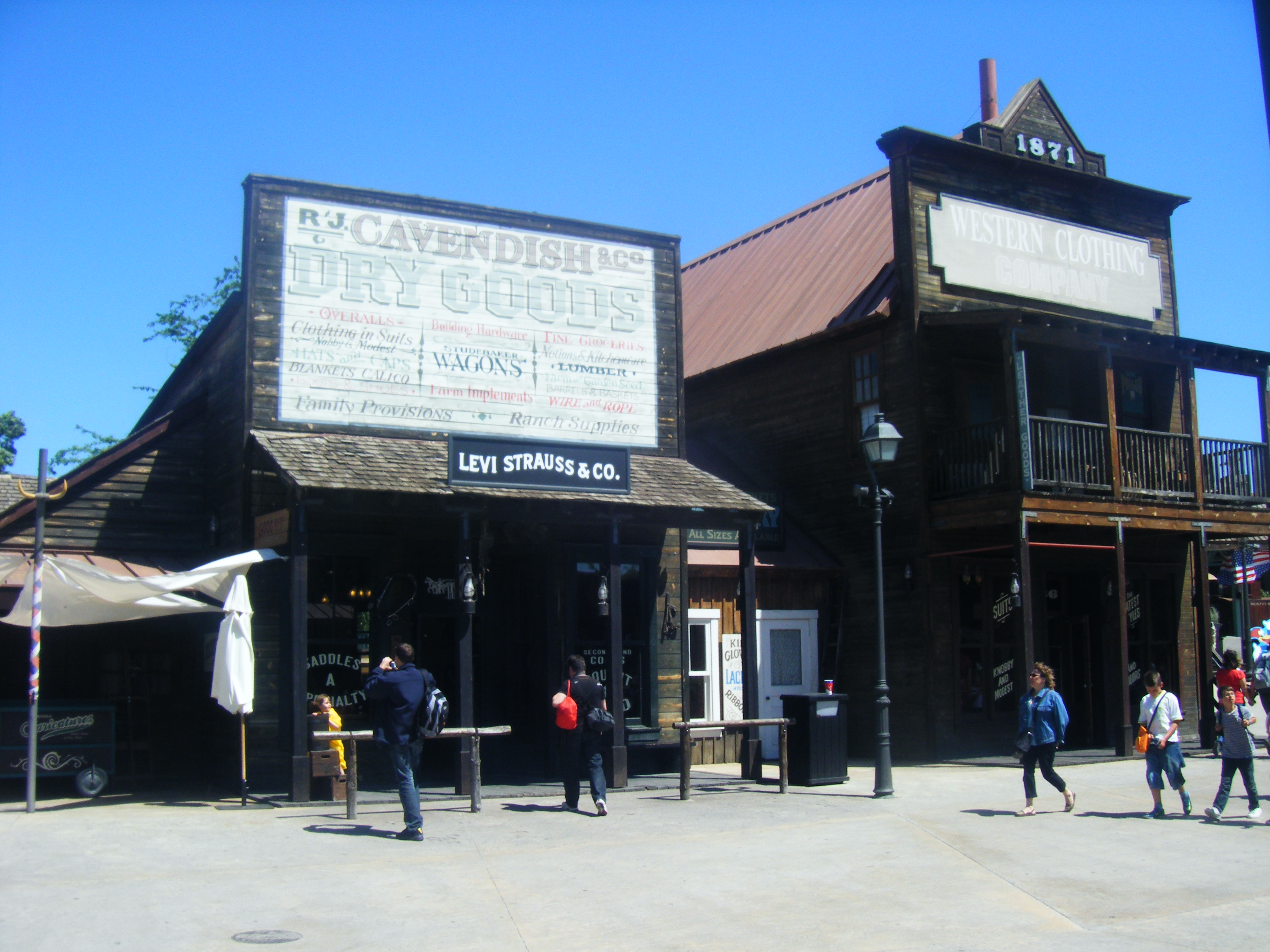 The Levi Strauss concession in the Wild West area of Port Aventura, Salou, Spain.